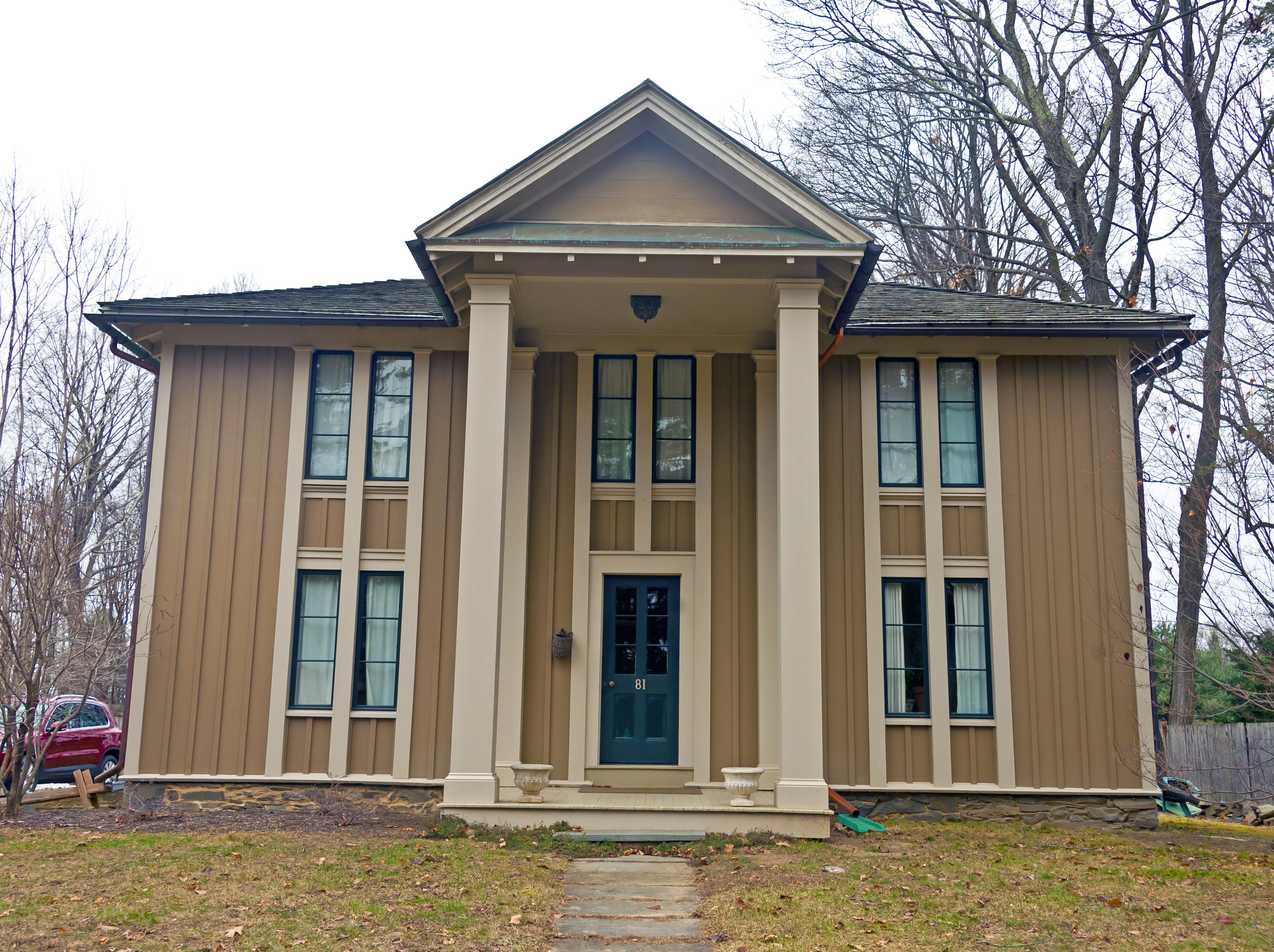 1849 Victorian cottage designed by Alexander Jackson Davis on the property of Maizefield, Red Hook, NY, USA